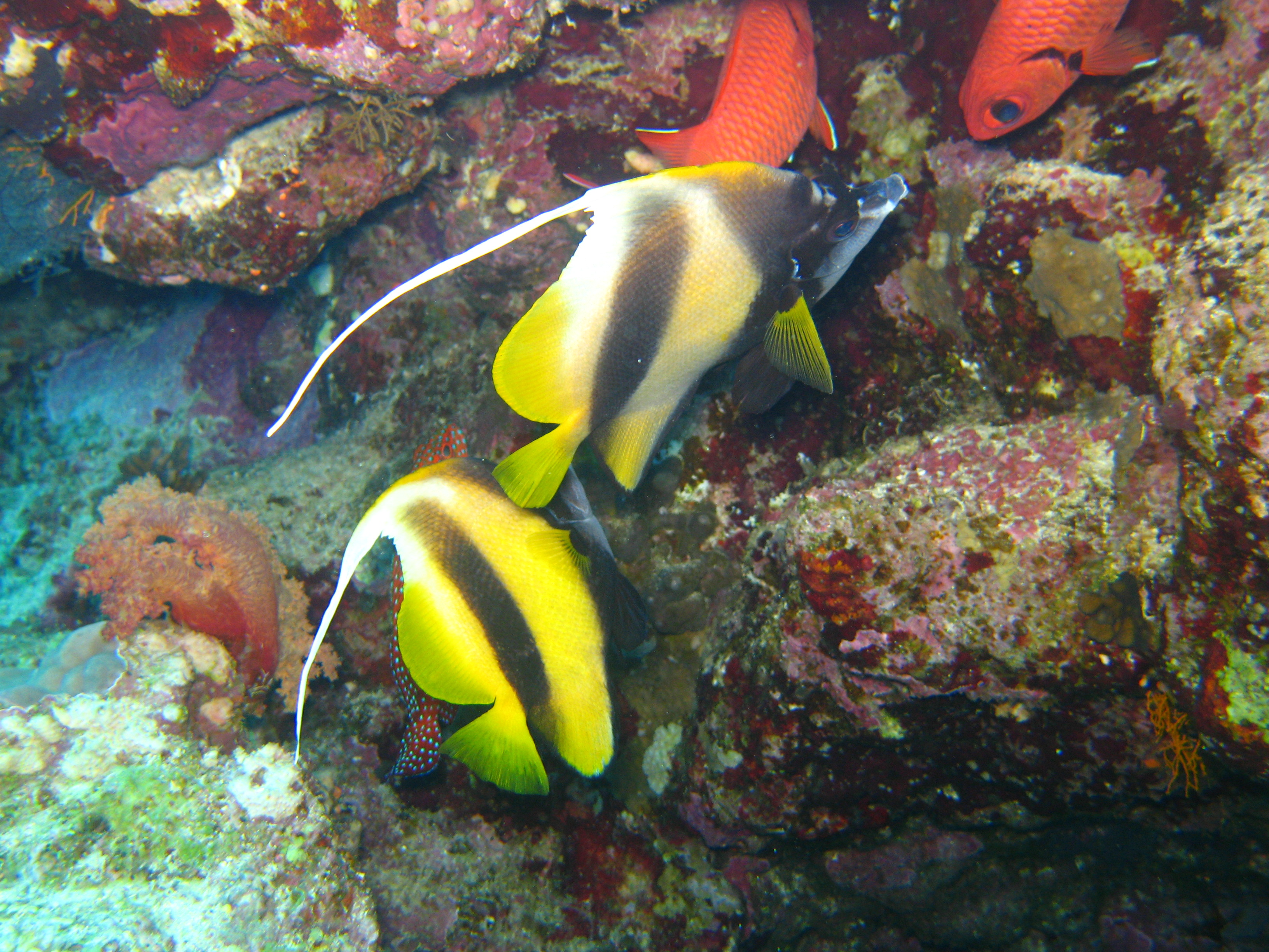 Port Ghalib Egypt